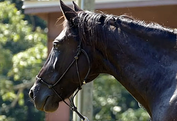 Retired U.S. Army horse Kennedy pictured in 2016